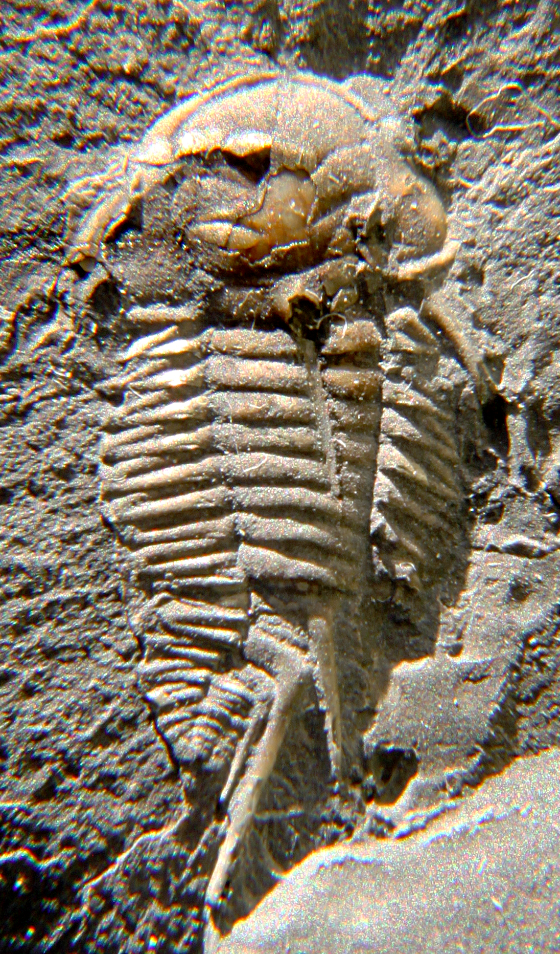 A Triarthrus spinosus trilobite, order Ptychopariida, family Olenidae, found in the Billings Shale, Ottawa, Canada Upper Ordovician, 14mm long excluding spines